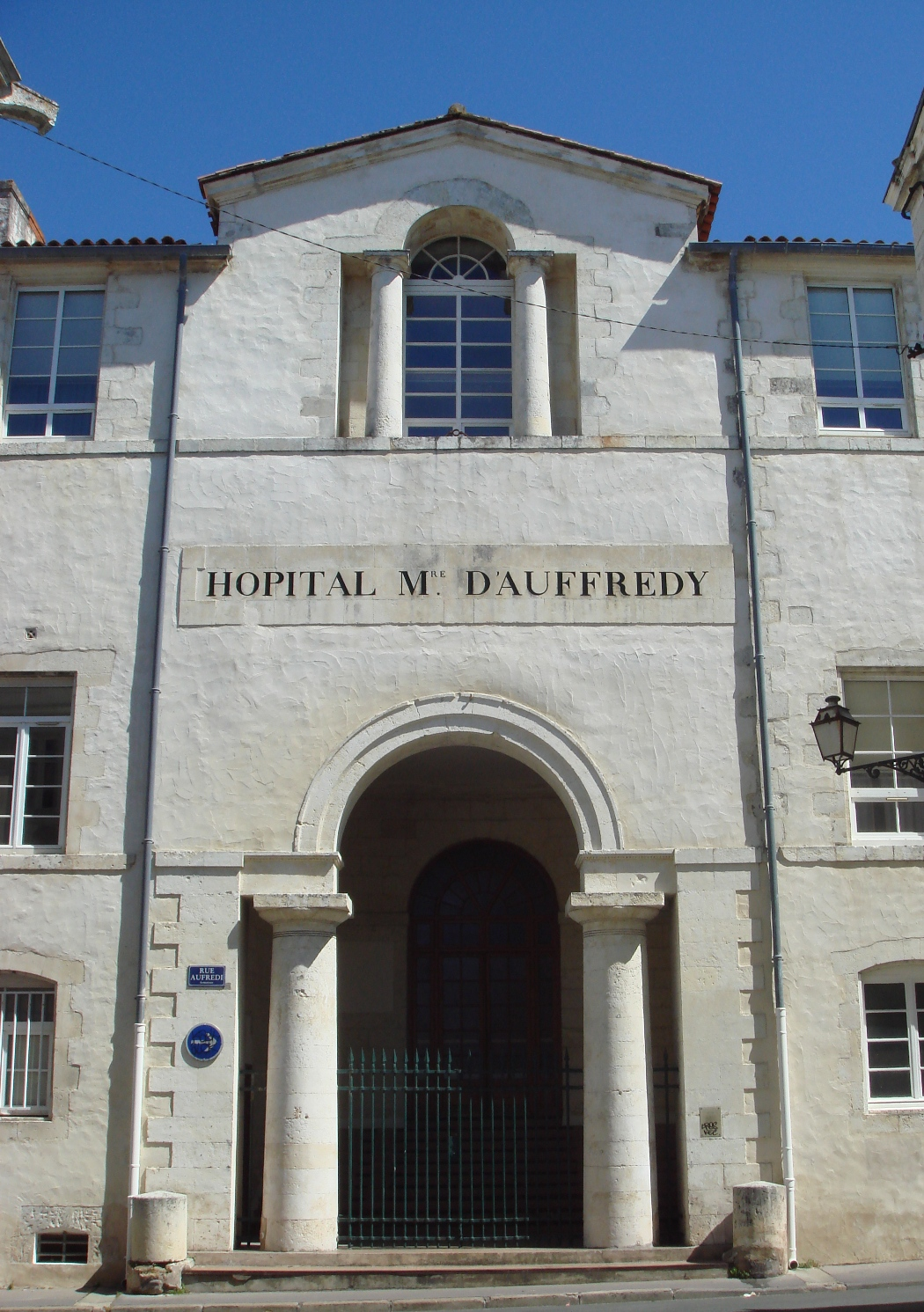 Auffredy_Hospital, La Rochelle